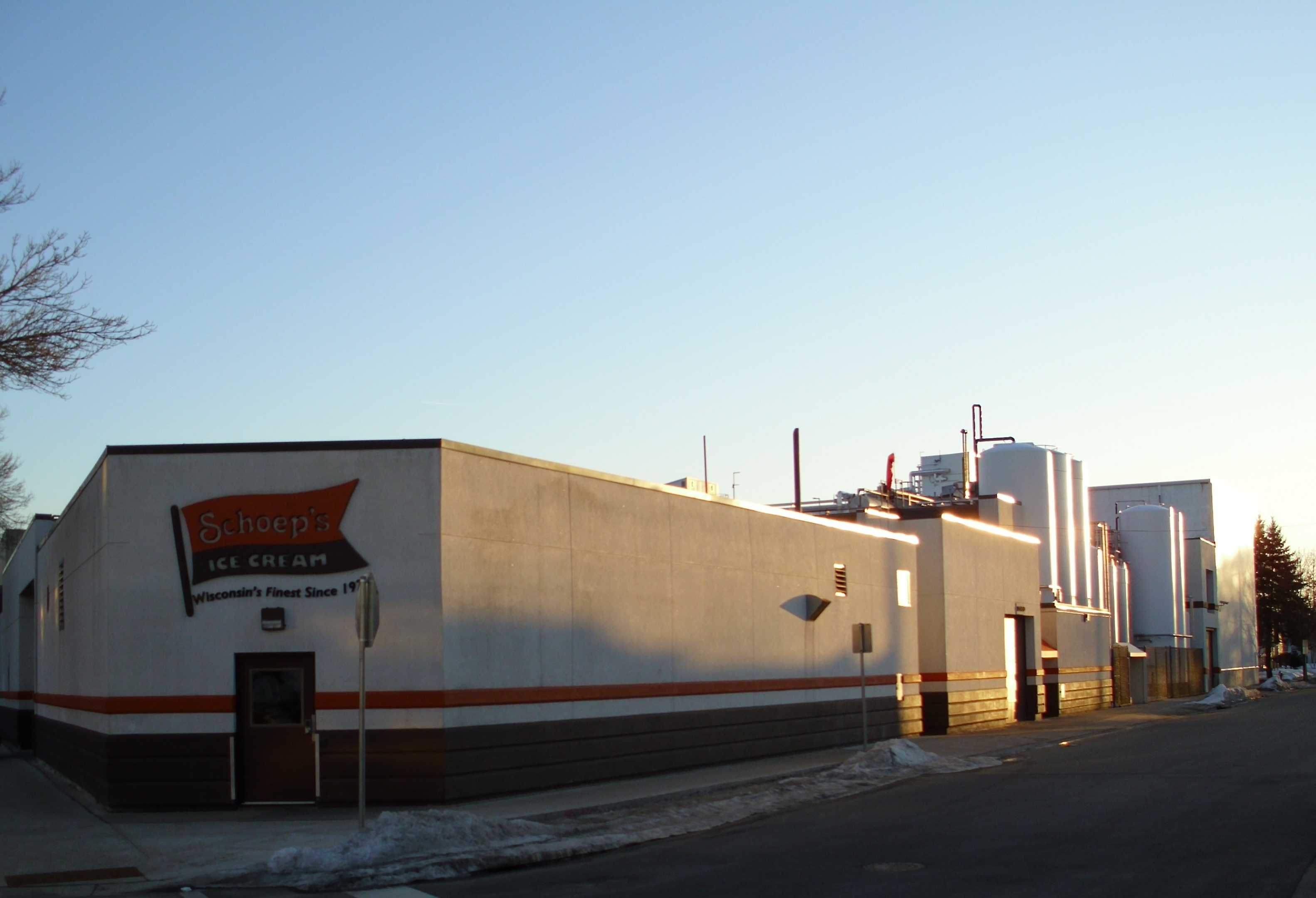 A photograph of the Schoep's Ice Cream Factory located on Division Street in Madison, Wisconsin